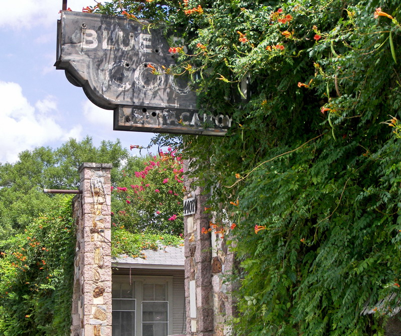 The dilapidated neon sign of the Blue Bonnet Court, located in Austin, Texas, United States. Built in 1929 as the Bluebonnet Tourist camp, it was listed on the National Register of Historic Places on August 16, 1990.